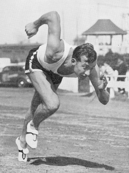 John Loaring, Champion British Empire Games, 1938 and Canadian Champion, 1937 – 440 yrds hurdles